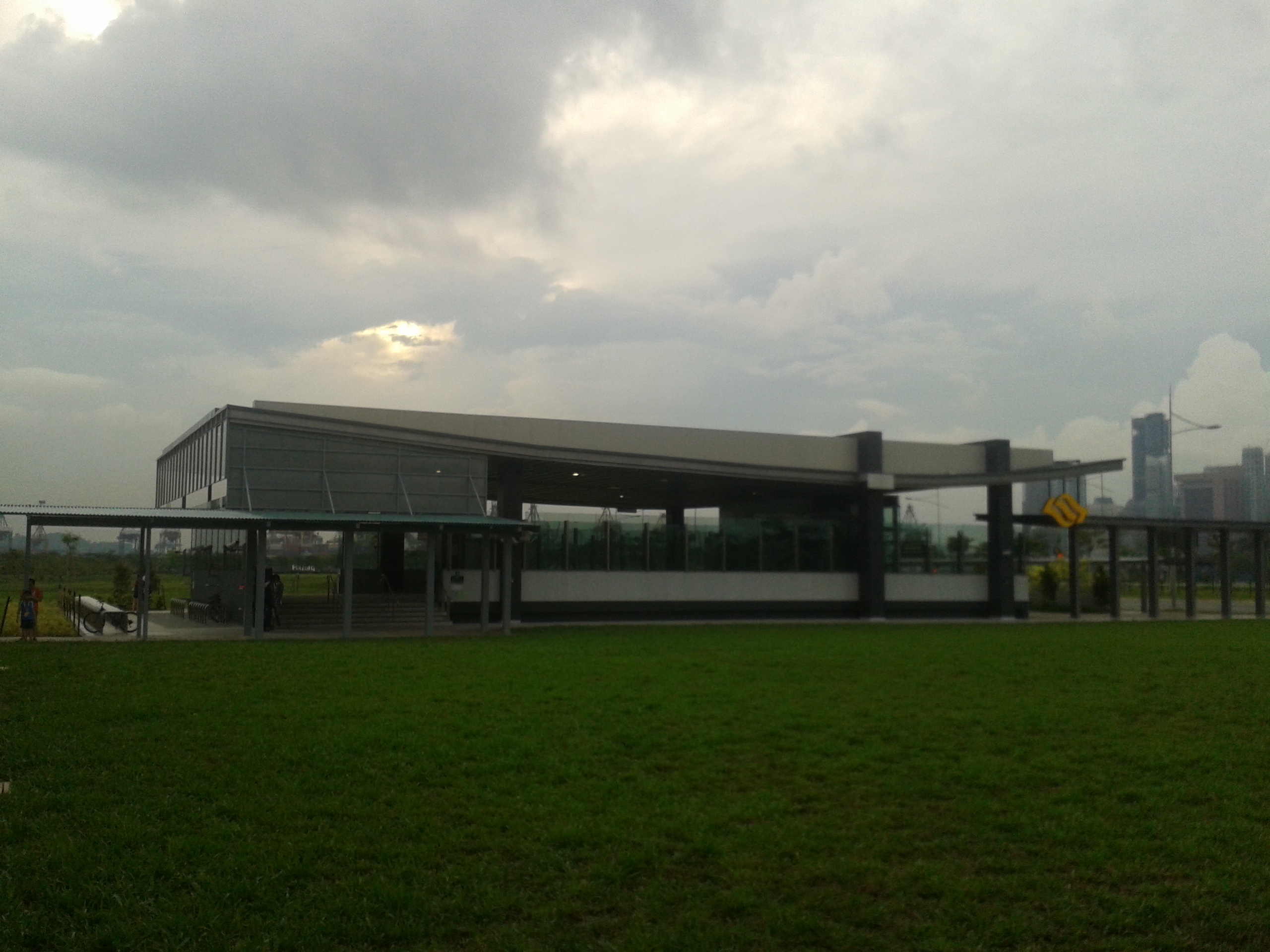 Date: 23 November 2014